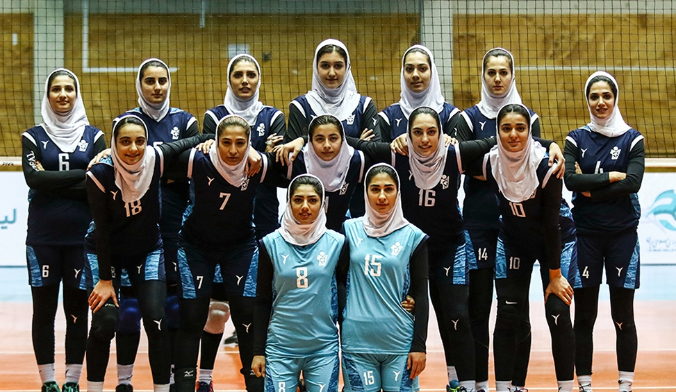 Peykan-Volleyball-Team-Women-2020 before their game against Setregan Shiraz in Iranian volleyball league